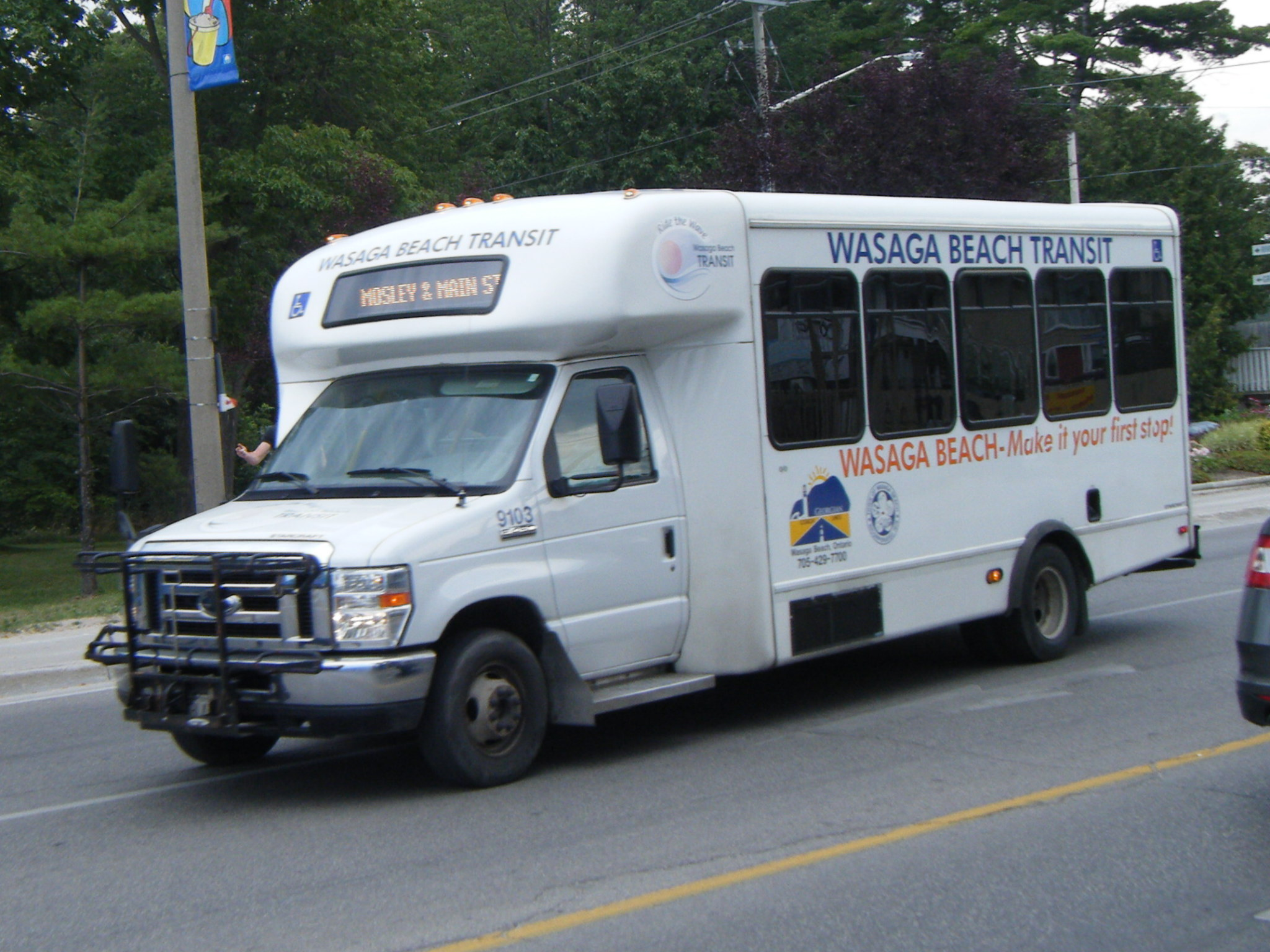 Wasaga Beach transit 9103 passing Beach 1